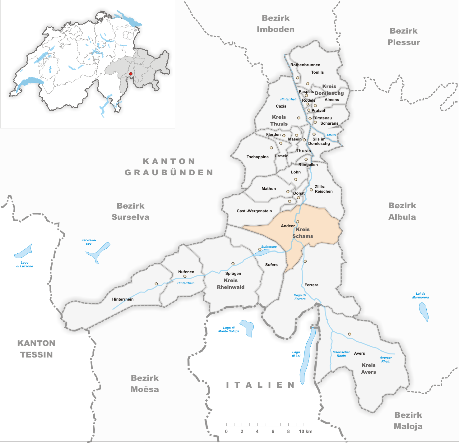 Municipality Andeer